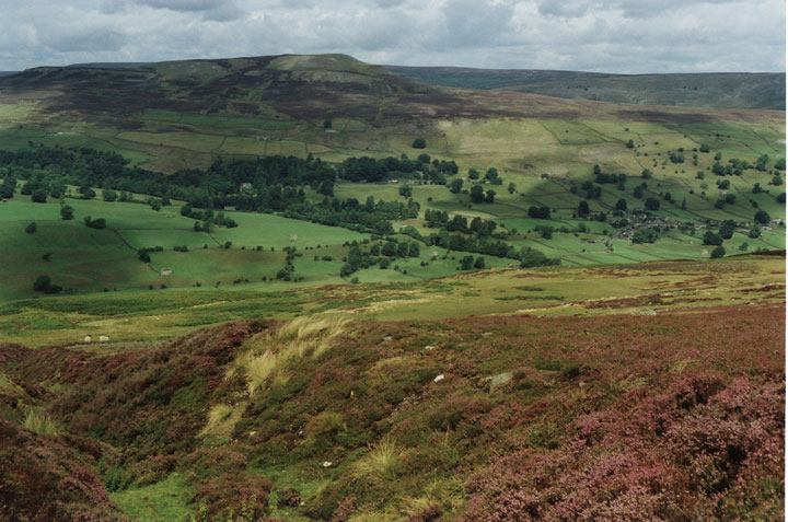 Swaledale, looking north from Harkerside Moor towards Calver Hill and Healaugh.